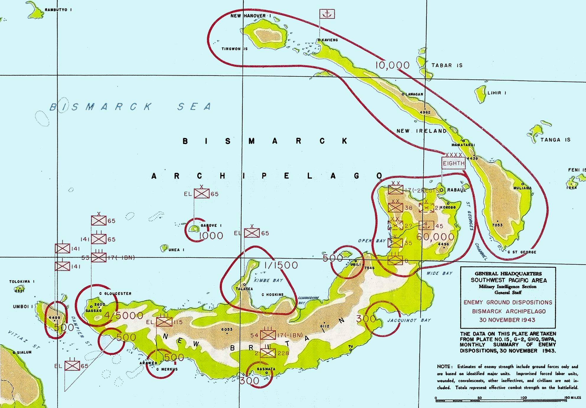 Japanese Ground Dispositions - Bismarck Archipelago - 30 November 1943